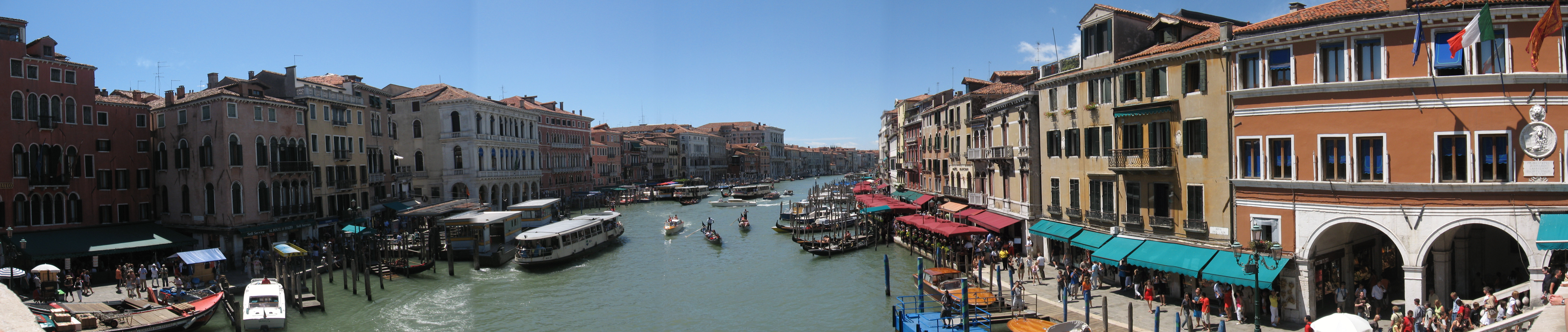 This picture captures the view on the Rialto bridge (Ponte di Rialto) in Venice, Italy looking southwest down the Grand Canal.